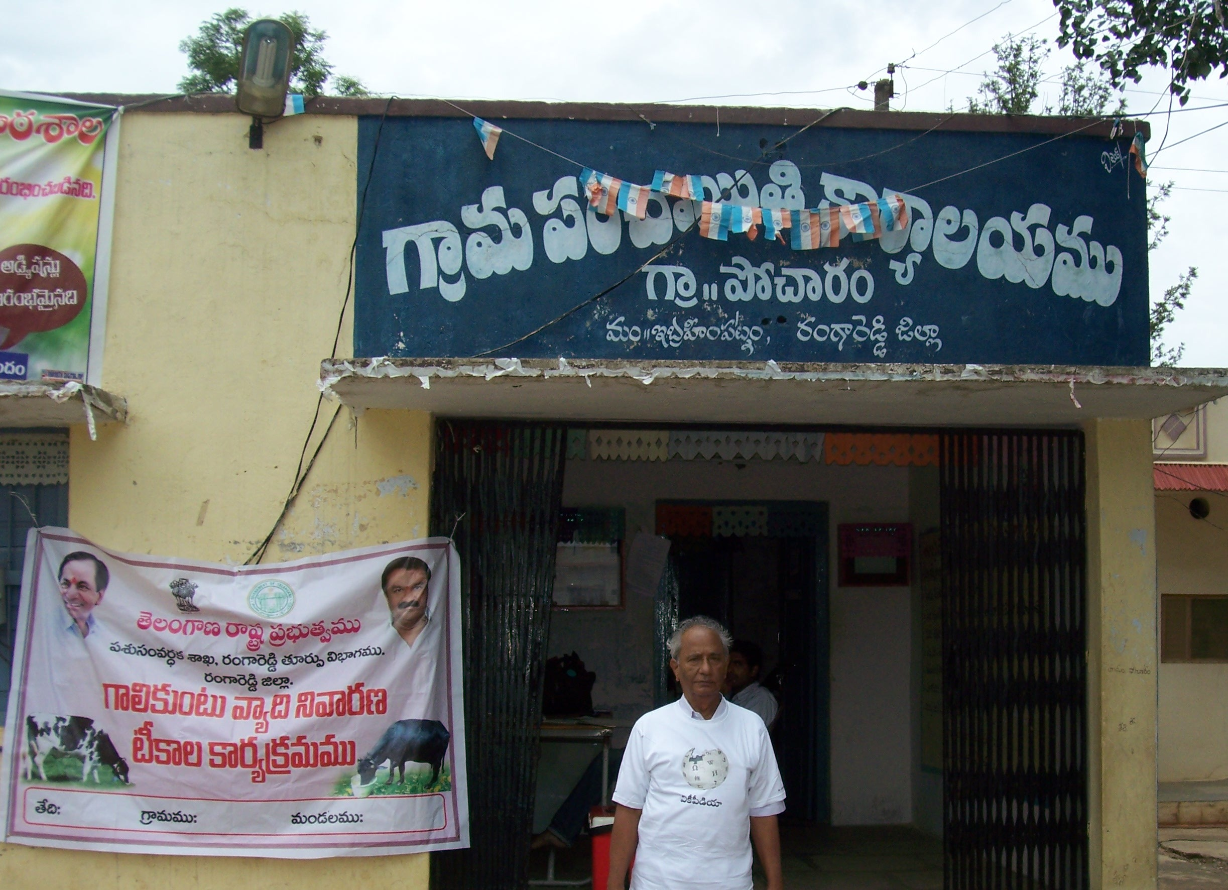 panchayat office